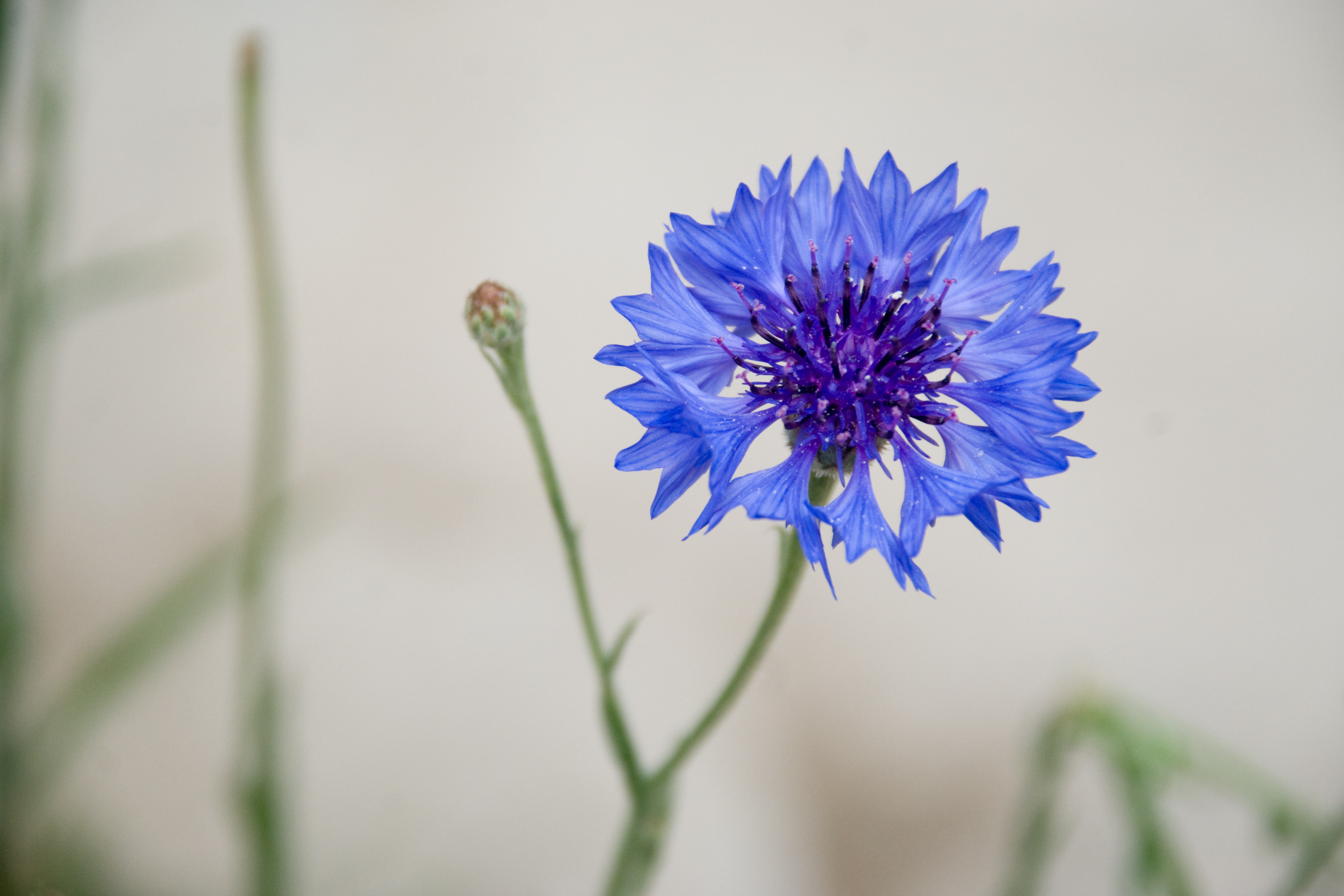 Cornflower blue (Centaurea cyanus), photographed in the Women's Alliance garden, Leh, Ladakh, Jammu & Kashmir, India.